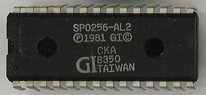 IC photo